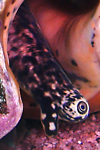 Well-developed lens eye of Strombus gigas, on eyestalk has a black iris. There is a small tentacle on the eyestalk also.